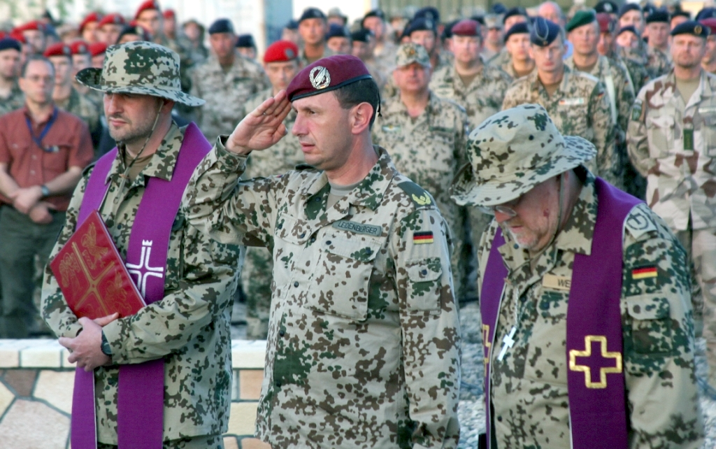 Military Dean Dr. Damian Slaczka, Brigadier General Frank Leidenberger and Military Chaplain Michael Weeke pay respect to the victims. (Photo by OR-7 Jacqueline Faller, RC North PAO)